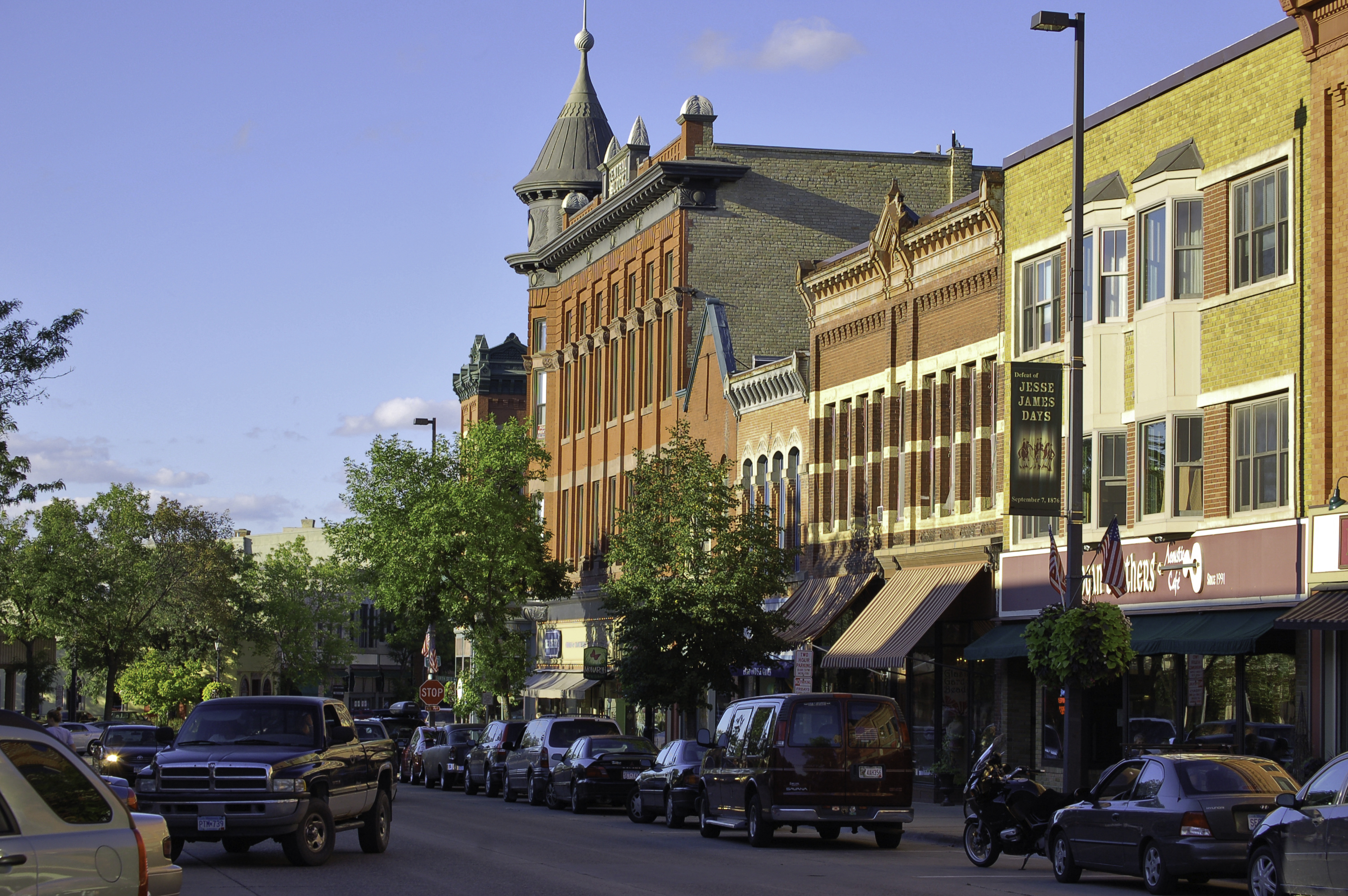 Downtown Northfield, Minnesota, United States, September 2010.